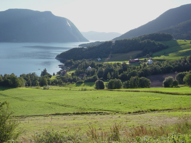 From Nesset and the Eresfjord and Boggestranda